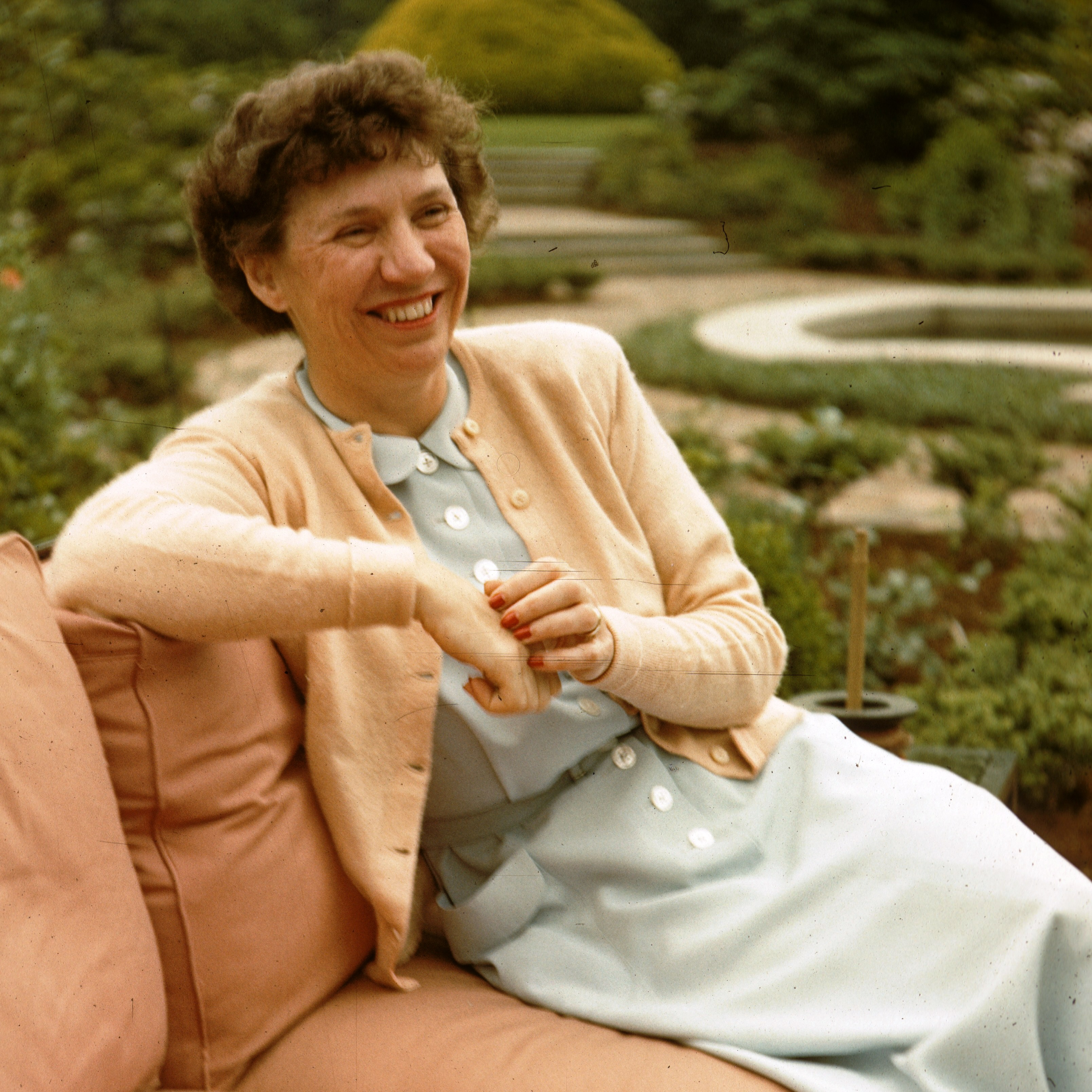 Pamela Cunningham Copeland in the Round Garden at Mt. Cuba Center